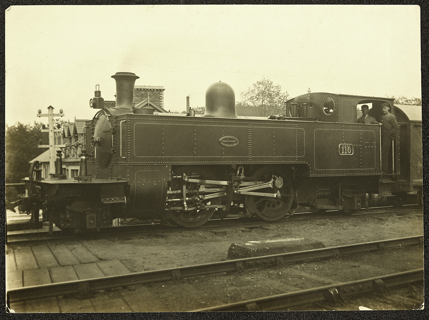 BNCR Class S, Nº110 Creator: R. Welch (Photographer) Date: c.1914 Original Format: Photographic Print Description: 110 train which has stopped on tracks PRONI Ref: D1403_2~065~A Copying and copyright: Please For Copy Orders, contact: For fees and charges